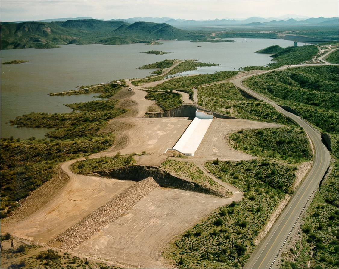 Emergency spillway (fuse plug) in foreground and auxiliary spillway (ogee crest) in background, New Waddell Dam, Arizona.